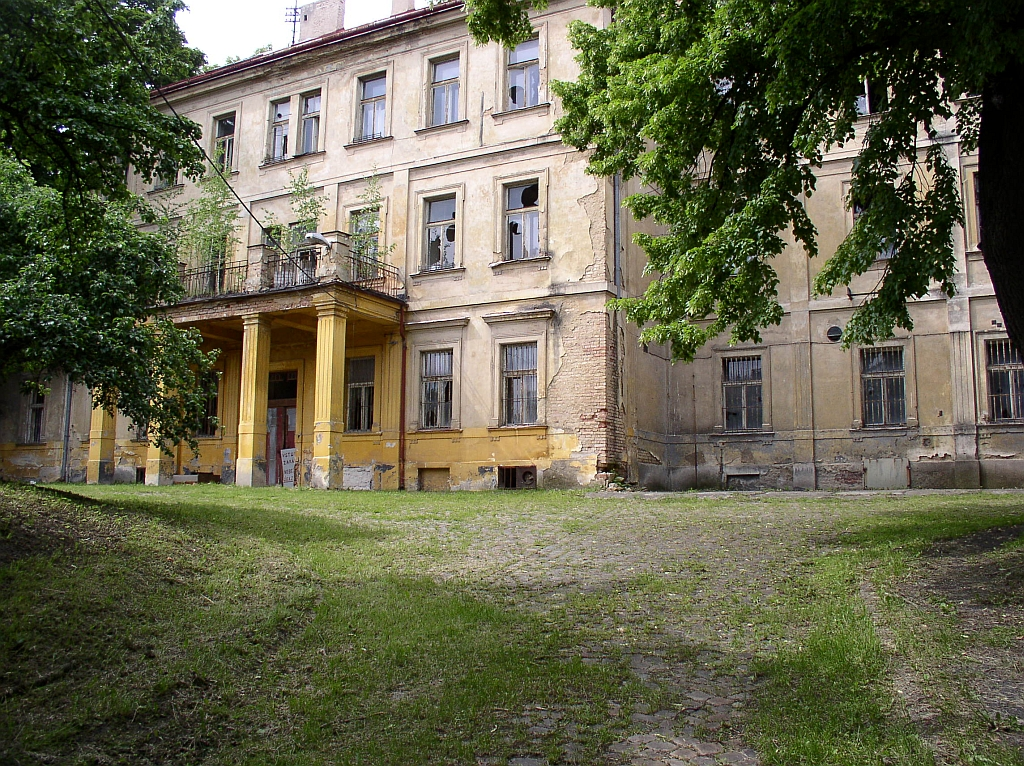 Petynka – one of old estates in Prague